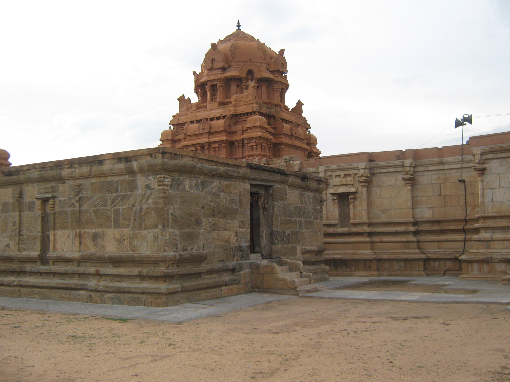 Sugrisvara Temple view of main vimana -Tiruppur